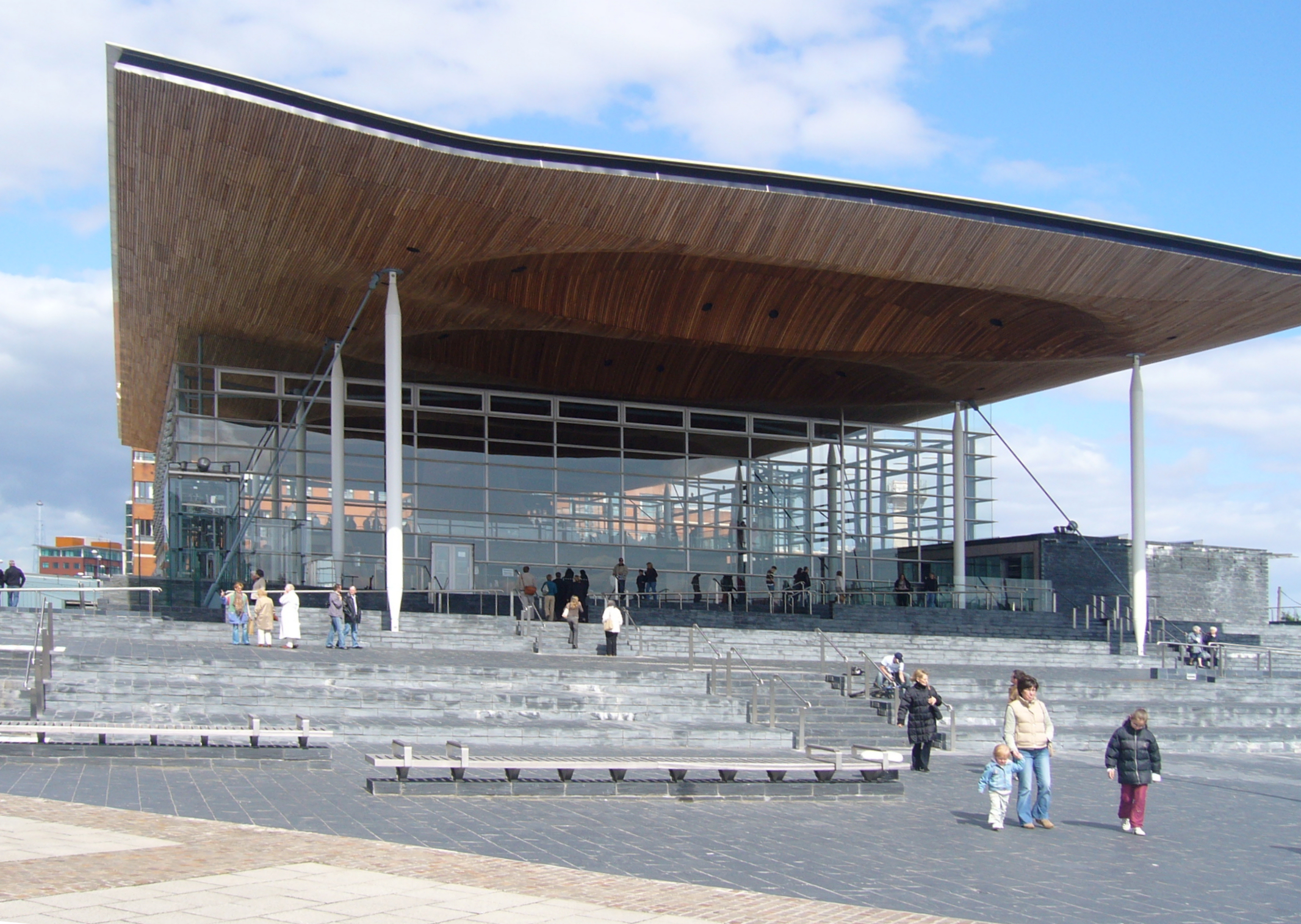 I took this photo myself.